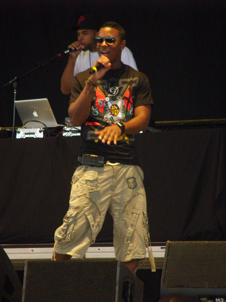 Jeremih performing in a concert on August 5, 2009.